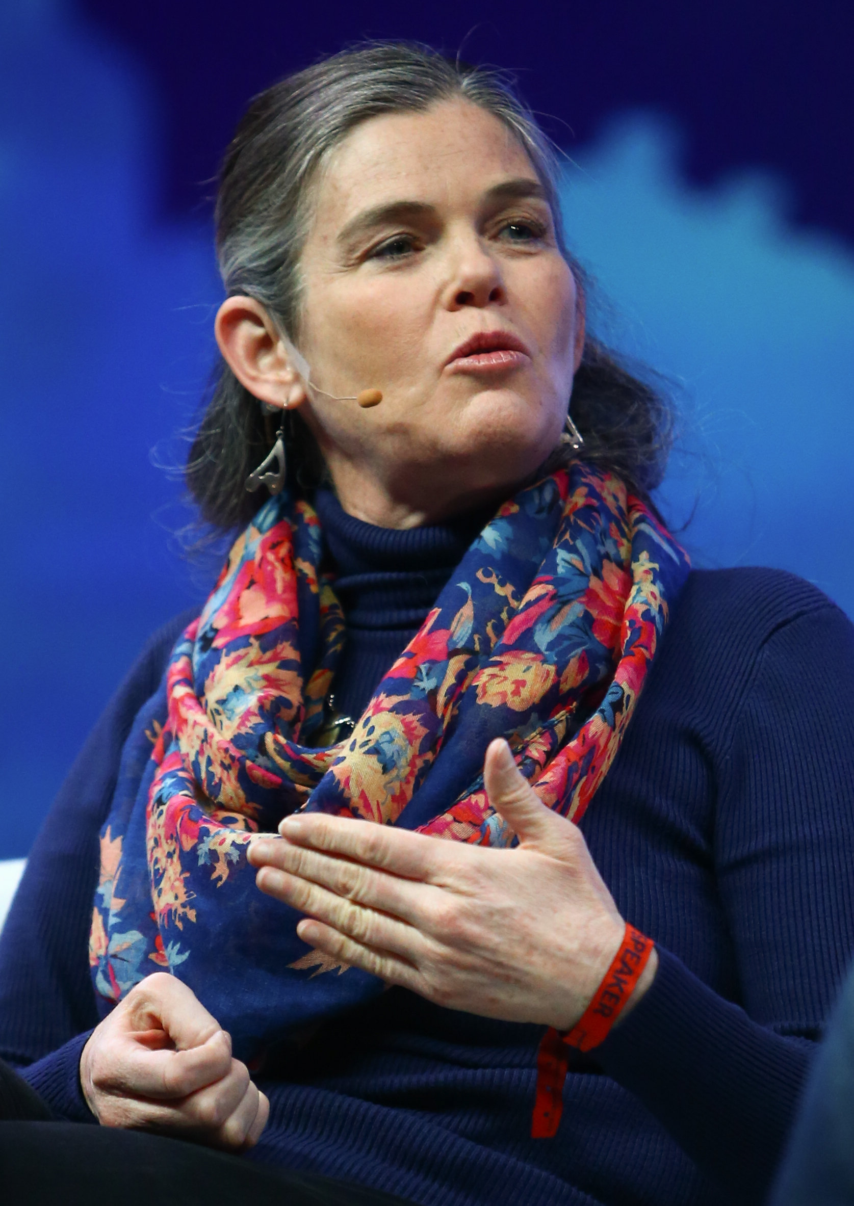 22 May 2019; Daphne Koller, CEO & Founder, Insitro, on Centre Stage during day two of Collision 2019 at Enercare Center in Toronto, Canada. Photo by Vaughn Ridley/Collision via Sportsfile